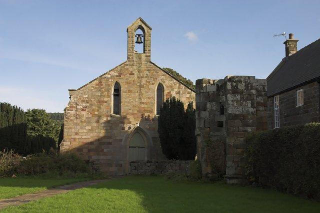 Parish church of SS Mary and Laurence, Rosedale Abbey, North Yorkshire, seen from the west. A Gothic Revival parish church built in 1839 on the site of a demolished Cistercian priory church.